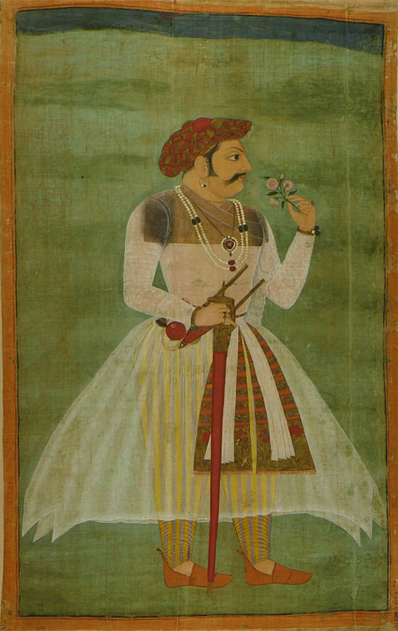 Maharana Jagat Singh I (reigned 1628-1654), India, Rajasthan, Mewar